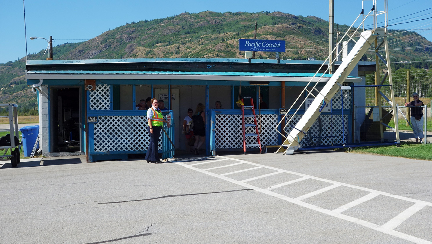 Trail Airport, West Kootenays, British Columbia, Canada